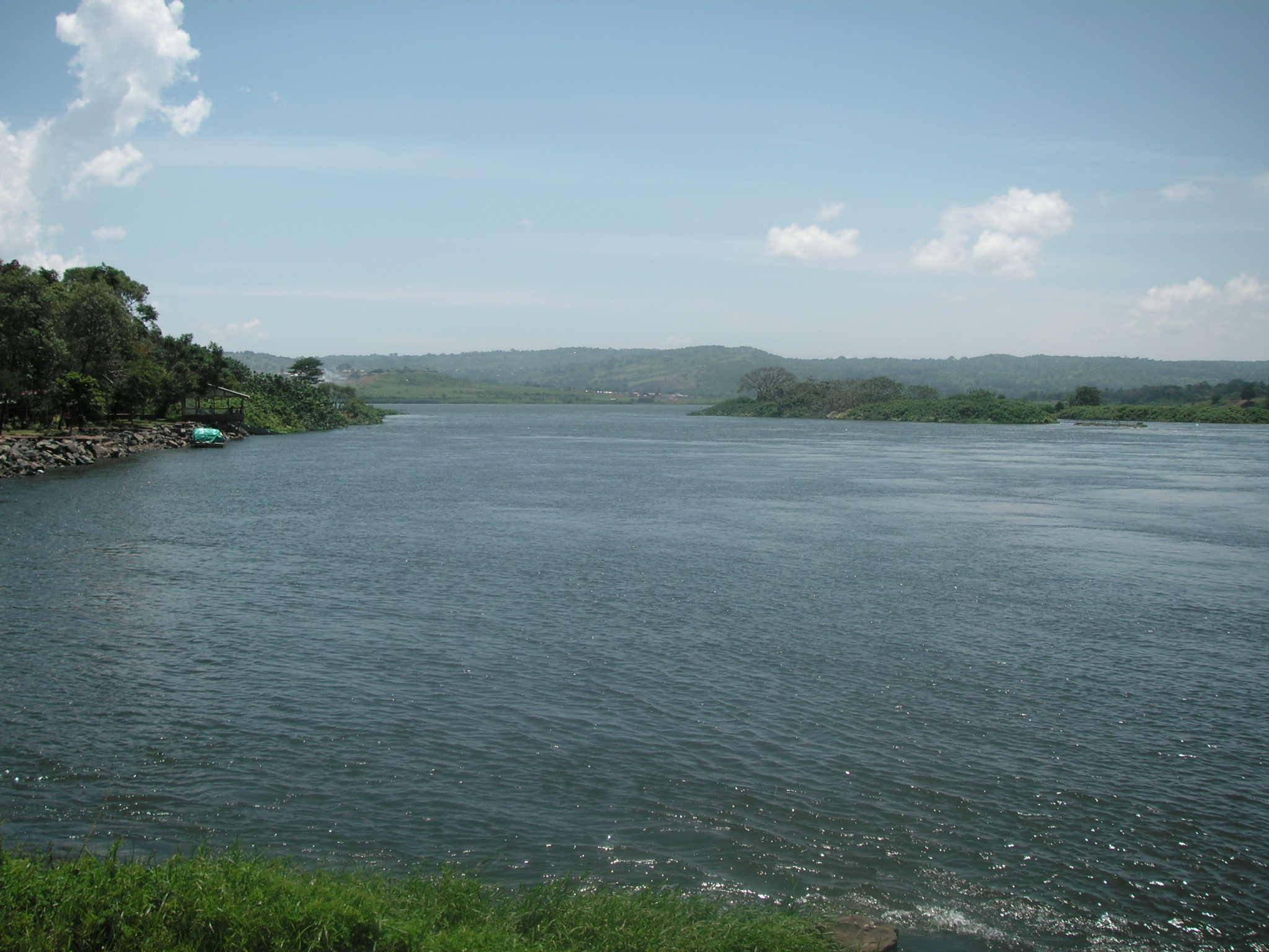 Source of the Nile (Lake Victoria) in Jinja (Uganda)